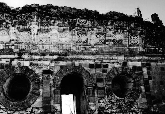 Seventeenth-century Portuguese church beside Lake Tana